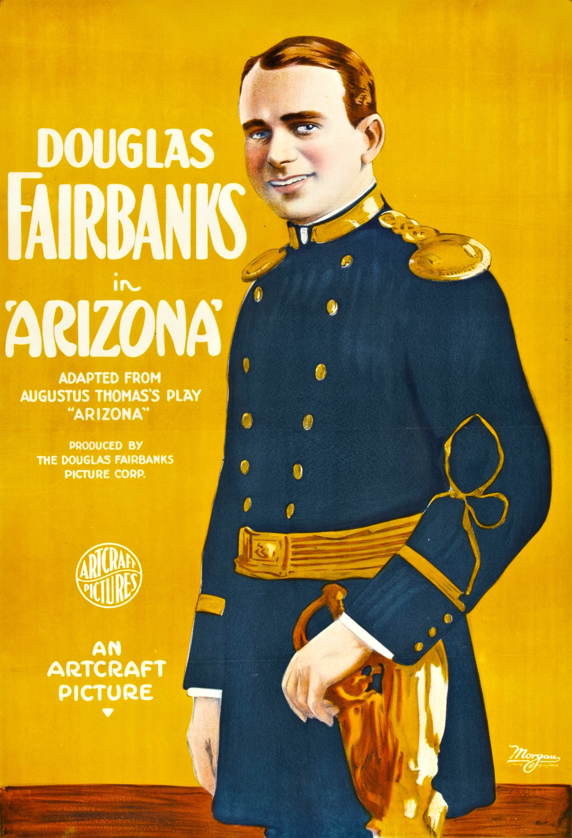 Arizona is a lost 1918 silent film drama produced by and starring Douglas Fairbanks and released by Artcraft Pictures, a Paramount related firm. This is a lobby poster for the film, produced in 1918 thus public domain.